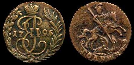 1795 Polushka, without mint-mark. Ex World-Wide Coins Auction XXXVIII, Nov 2000, Lot 401.